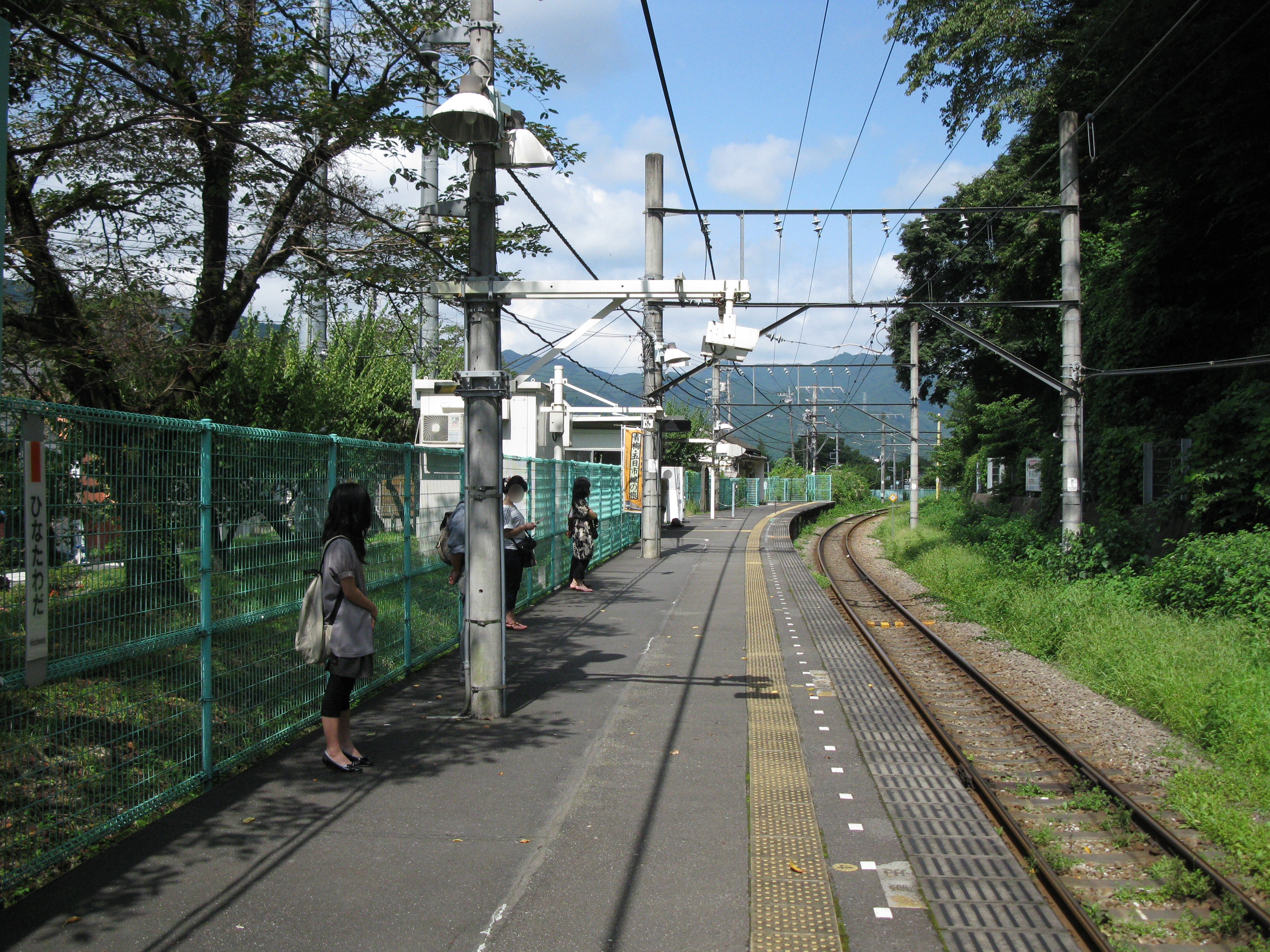 Hinatawada Station platform (East Japan Railway Ōme Line)